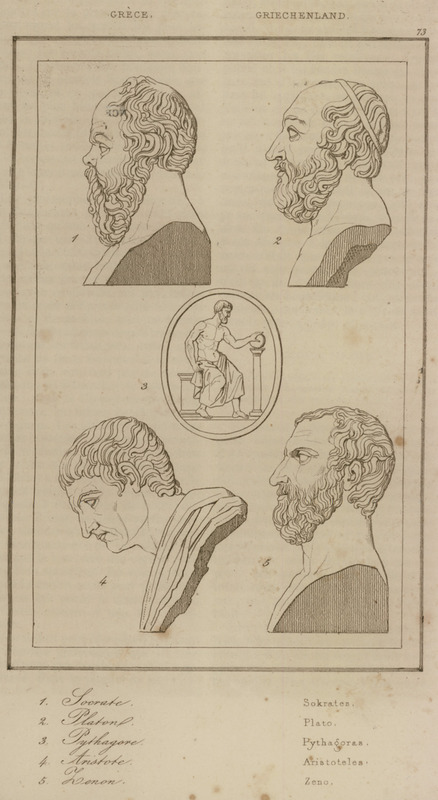 François-Charles-Hugues-Laurent Pouqueville. Grèce. Paris, Firmin Didot, MDCCCXXXV (1835)